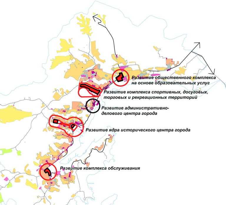 Scheme of formation of urban cores of Nakhodka City, Russia